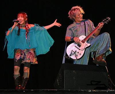 Angela's concert at Otakon 2004